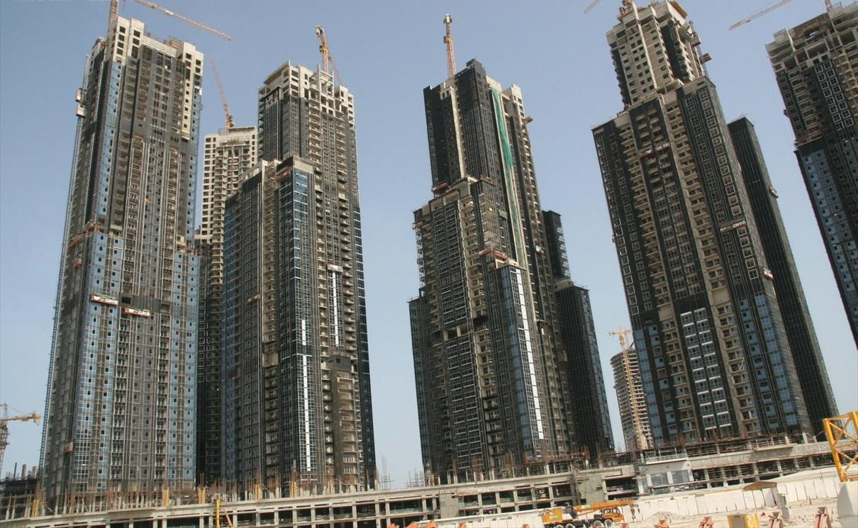 This is a photo showing the construction of the Executive Towers, located in Business Bay in Dubai, United Arab Emirates, on 22 June 2007.